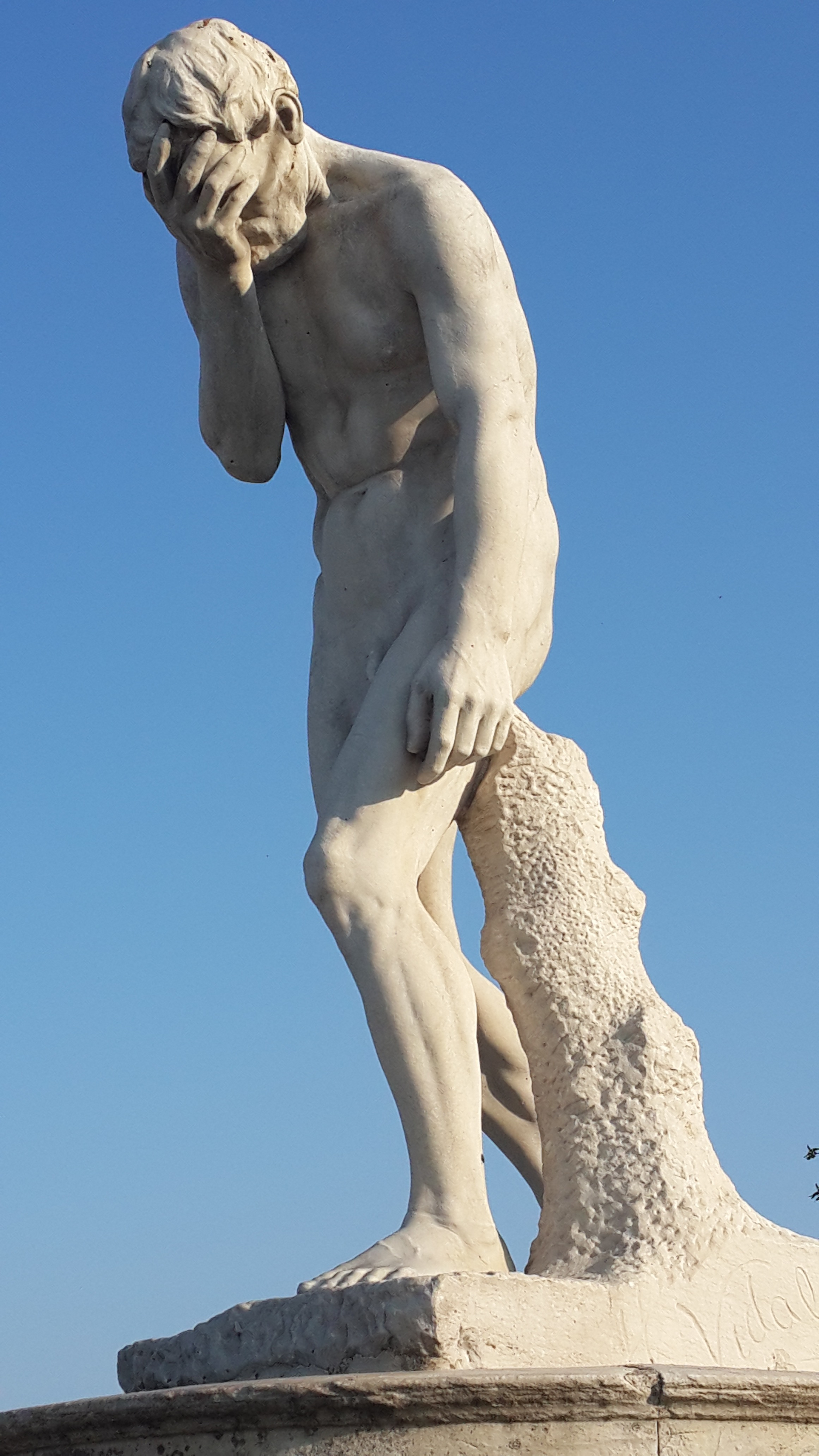 Caïn venant de tuer son frère Abel by Henri Vidal